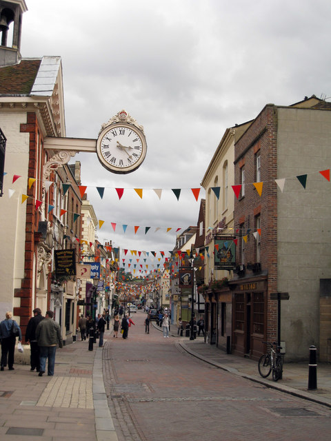 High Street, Rochester, Kent